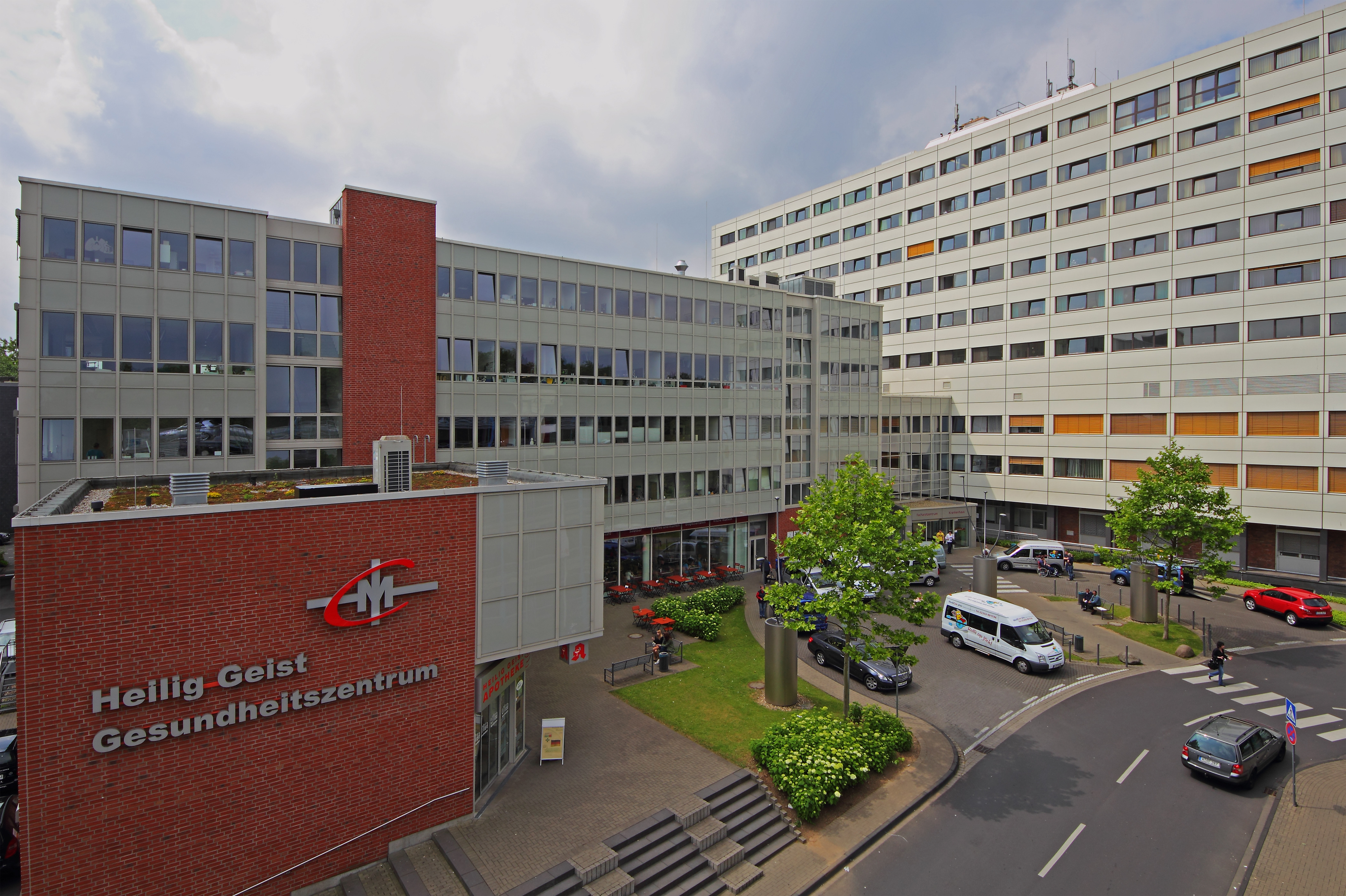 Cologne-Longerich hospital